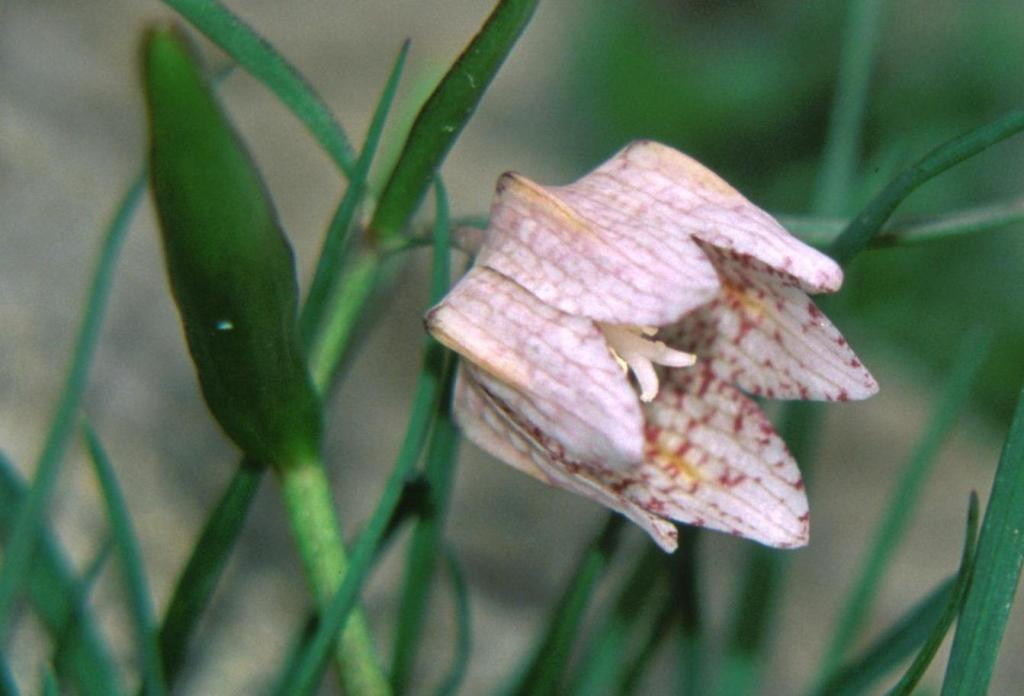 Fritillaria japonica in Mount Fujiwara